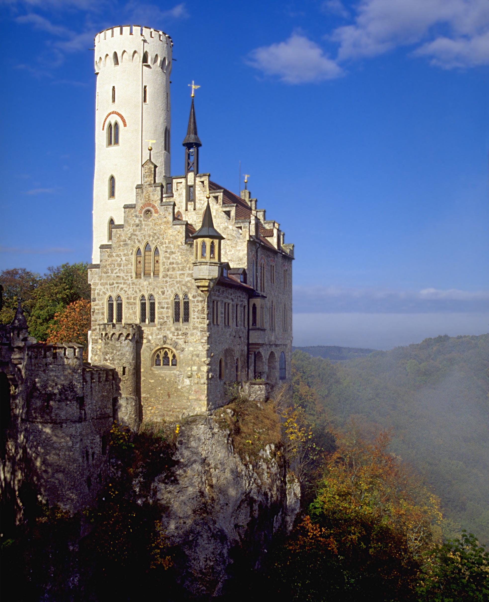 Castle Lichtenstein at Lichtenstein-Honau, Baden-Württemberg